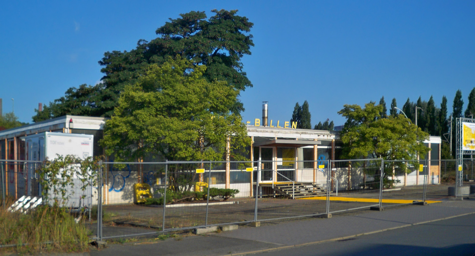 Wolfsburg, Lower Saxony, Billen-Pavillon (1959)